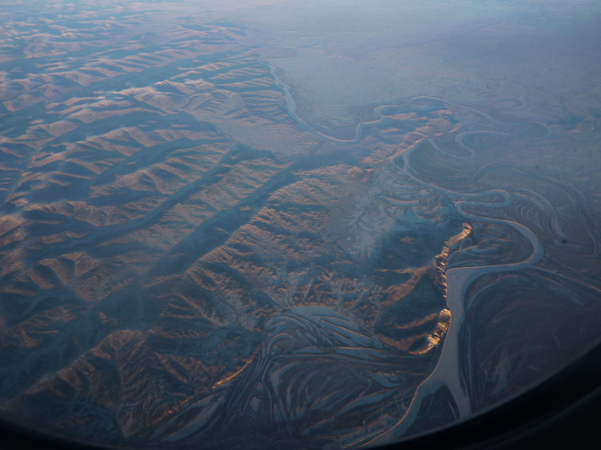 The lower course of the Koyukuk River, just north of its confluence into the Yukon. Photo taken from an AA aircraft on a non-stop ORD-PVG flight